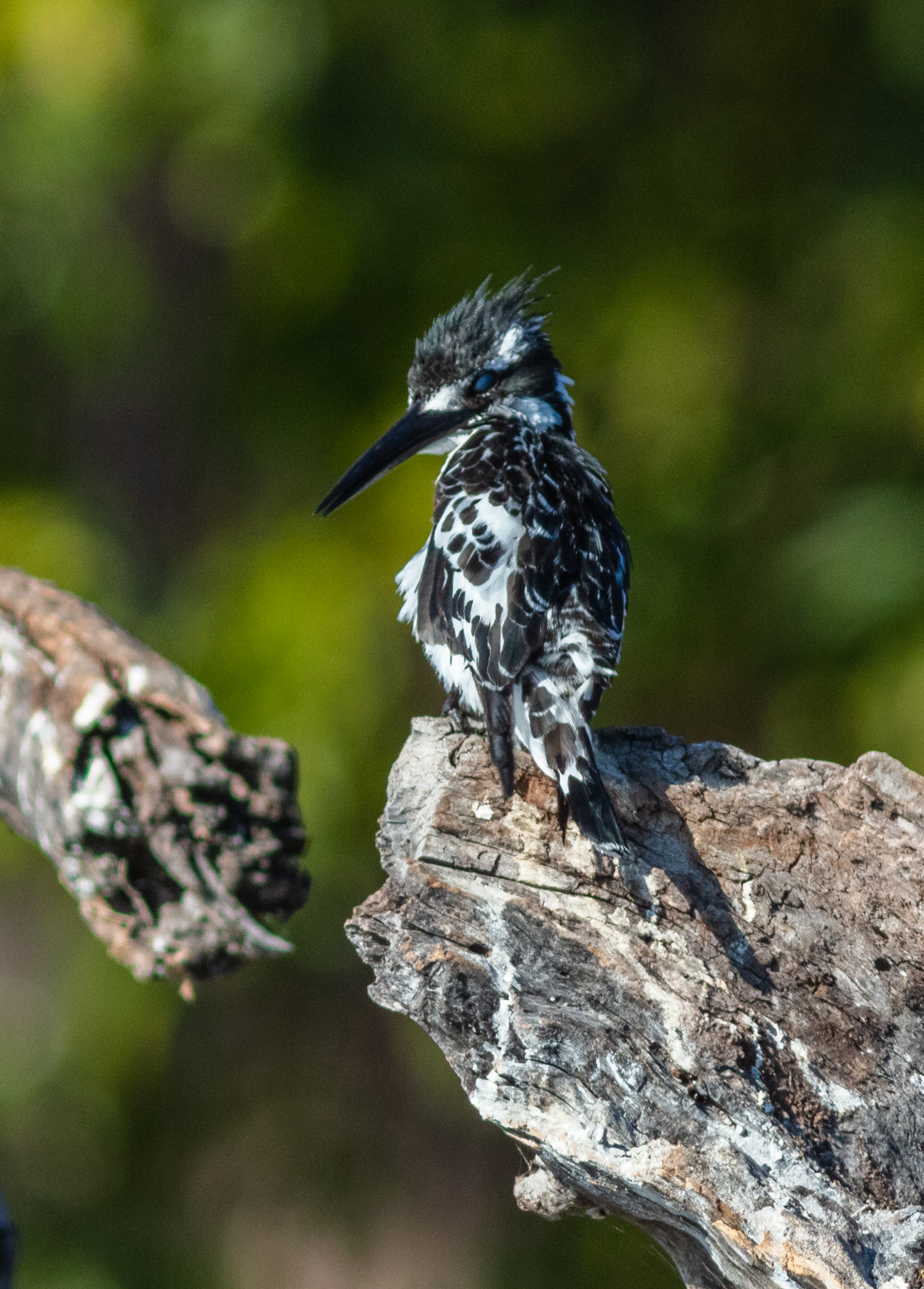 Pied kingfisher (Ceryle rudis), Chobe National Park, Botswana